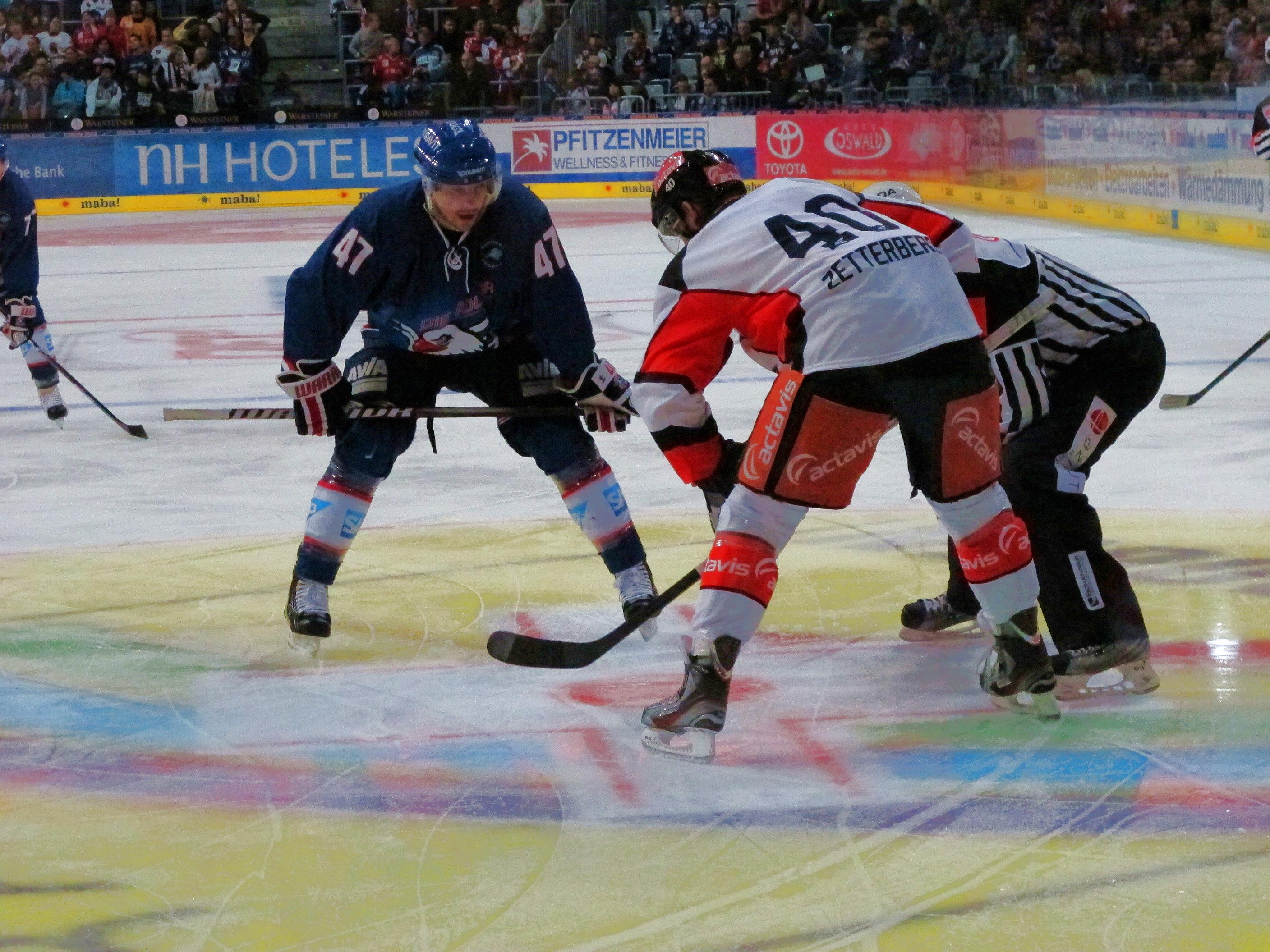 Christoph Ullmann (left), german ice hockey player, forward; Henrik Zetterberg, swedish ice hockey player, forward